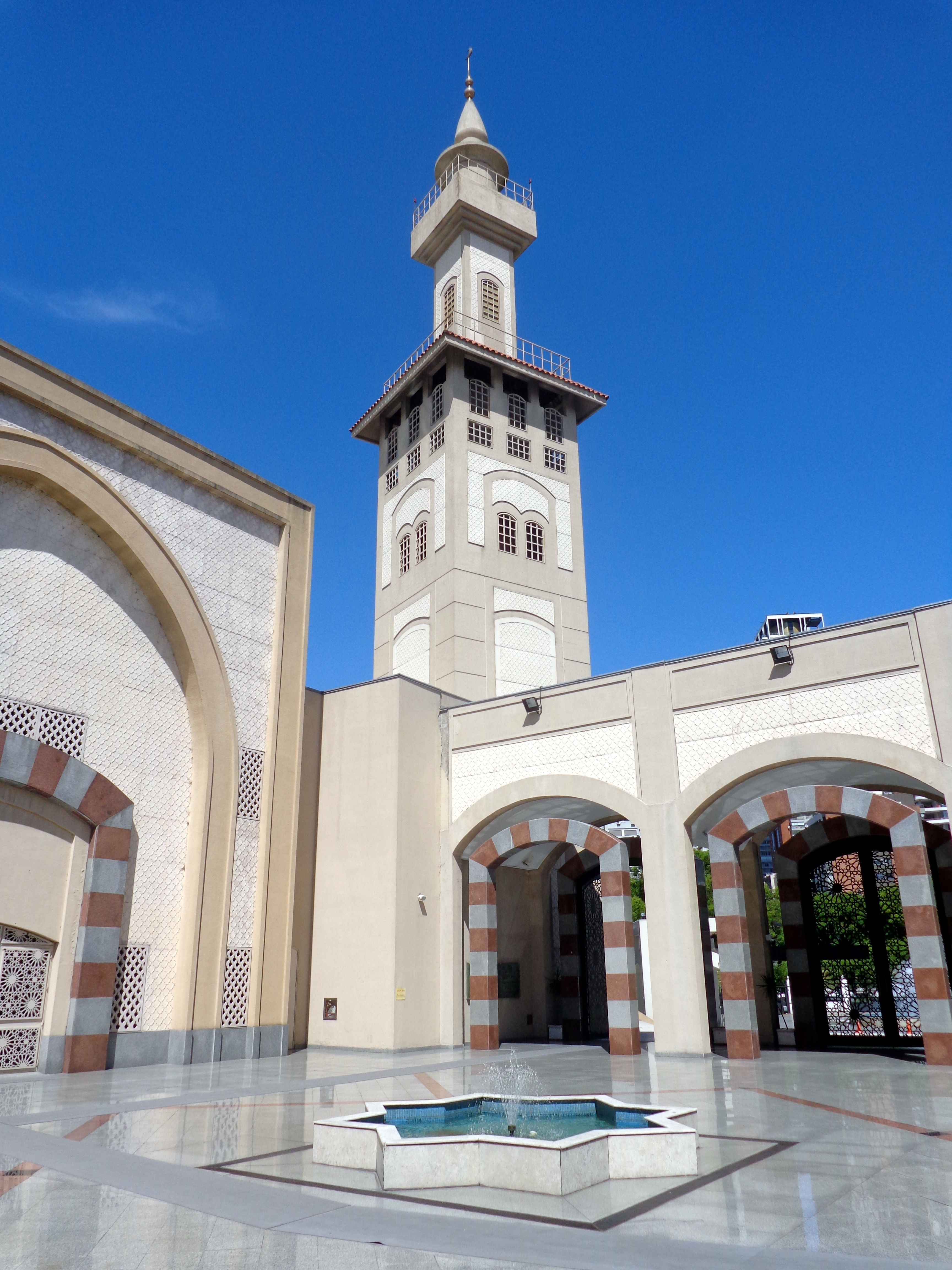 Mosque "Centro Cultural Islámico Custodio de las Dos Sagradas Mezquitas Rey Fahd en Argentina", in Intendente Bullrich 55, Buenos Aires.